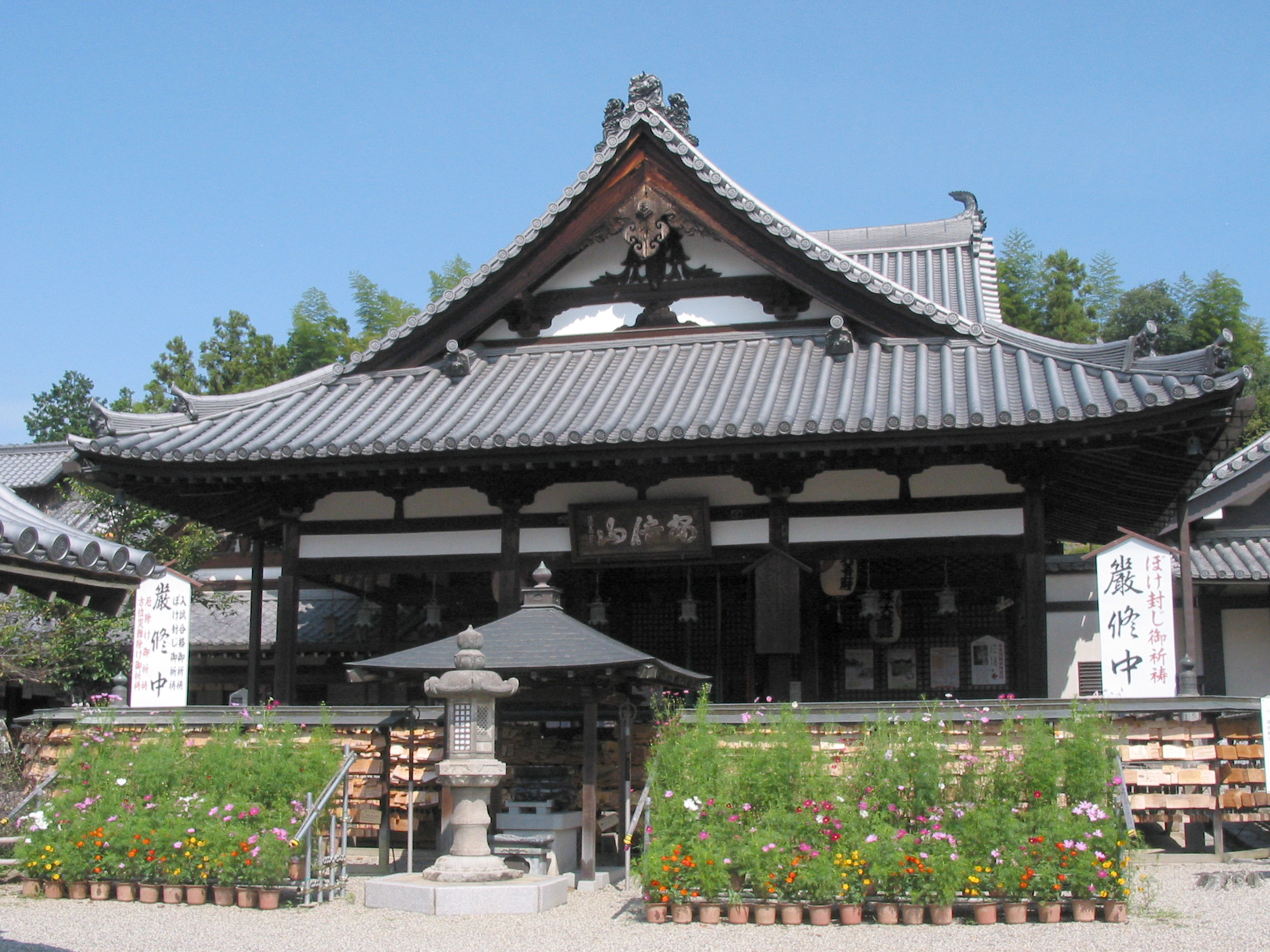 Hondō of Abe Monjuin at Sakurai, Nara Pref., Japan. This architecture was built in 1665 (early Edo period). 華厳宗別格本山安倍文殊院本堂 1665年（寛文5年）江戸時代前期 奈良県桜井市阿部で撮影